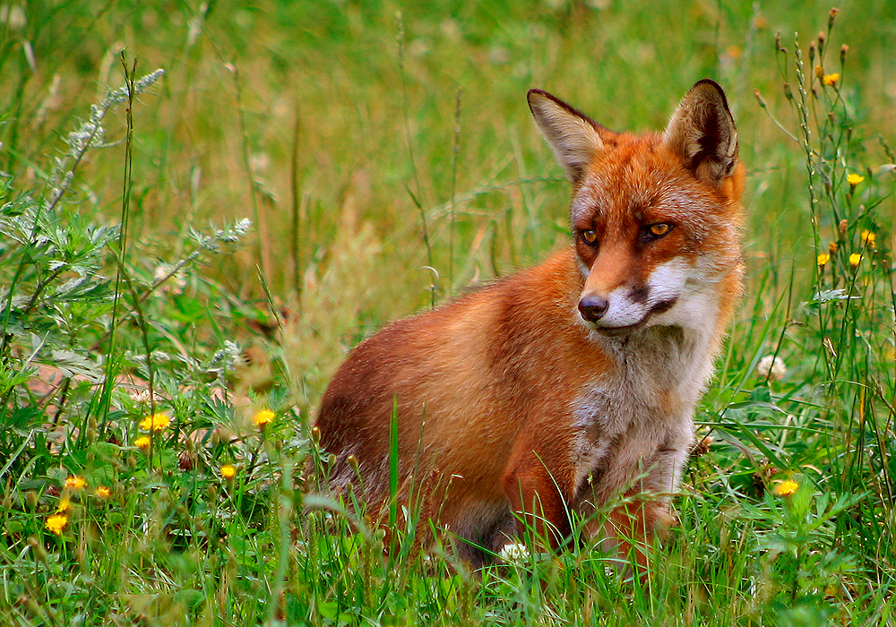 Red fox. Picture from Skandinavisk Dyrepark, Denmark